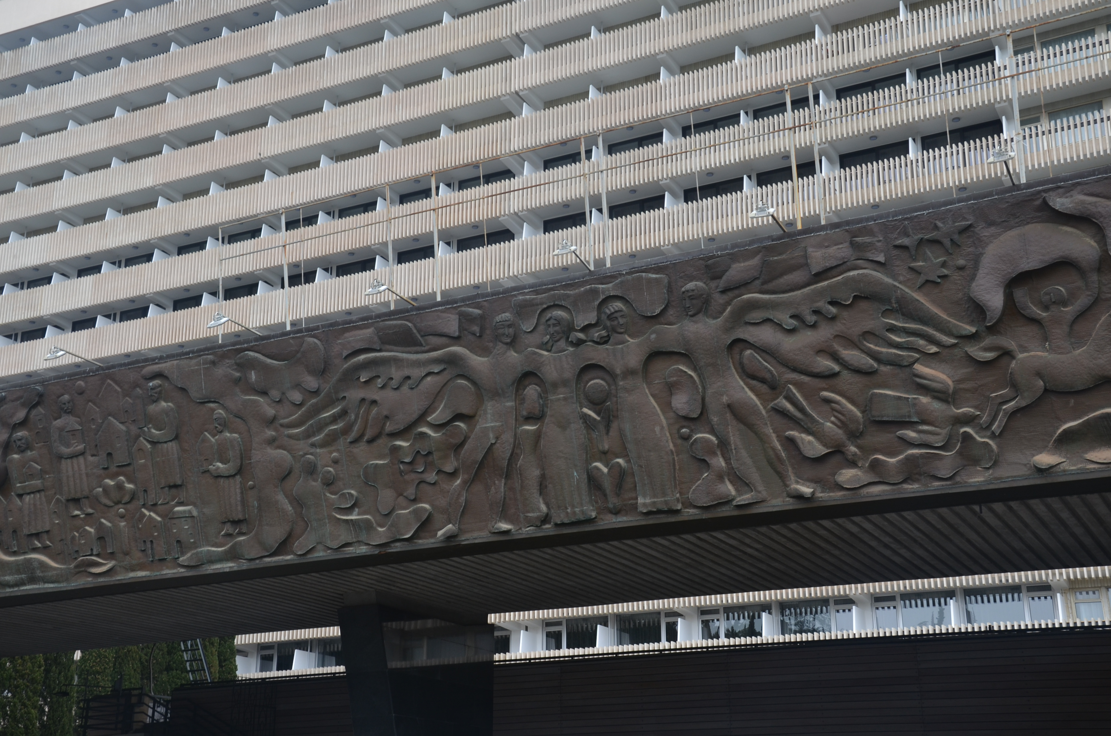 Yalta-Intourist Hotel